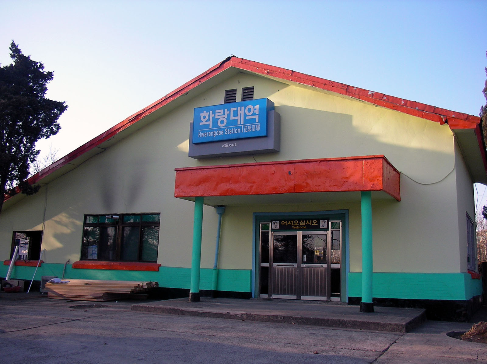 Hwarangdae Station in Gyeongchun Line